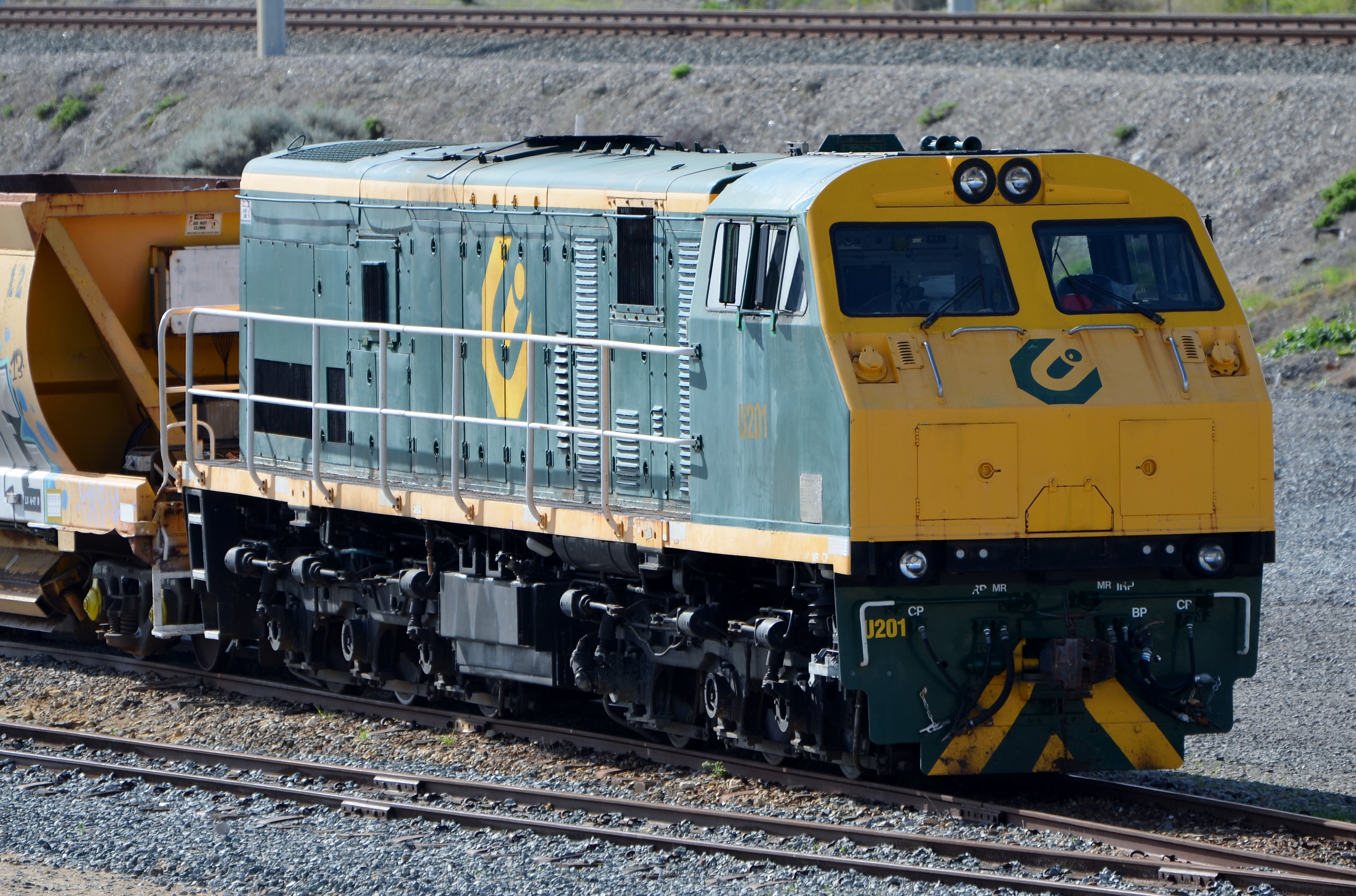 CC 203-type diesel-electric locomotive U201, stabled at Leighton Yard with a ballast train